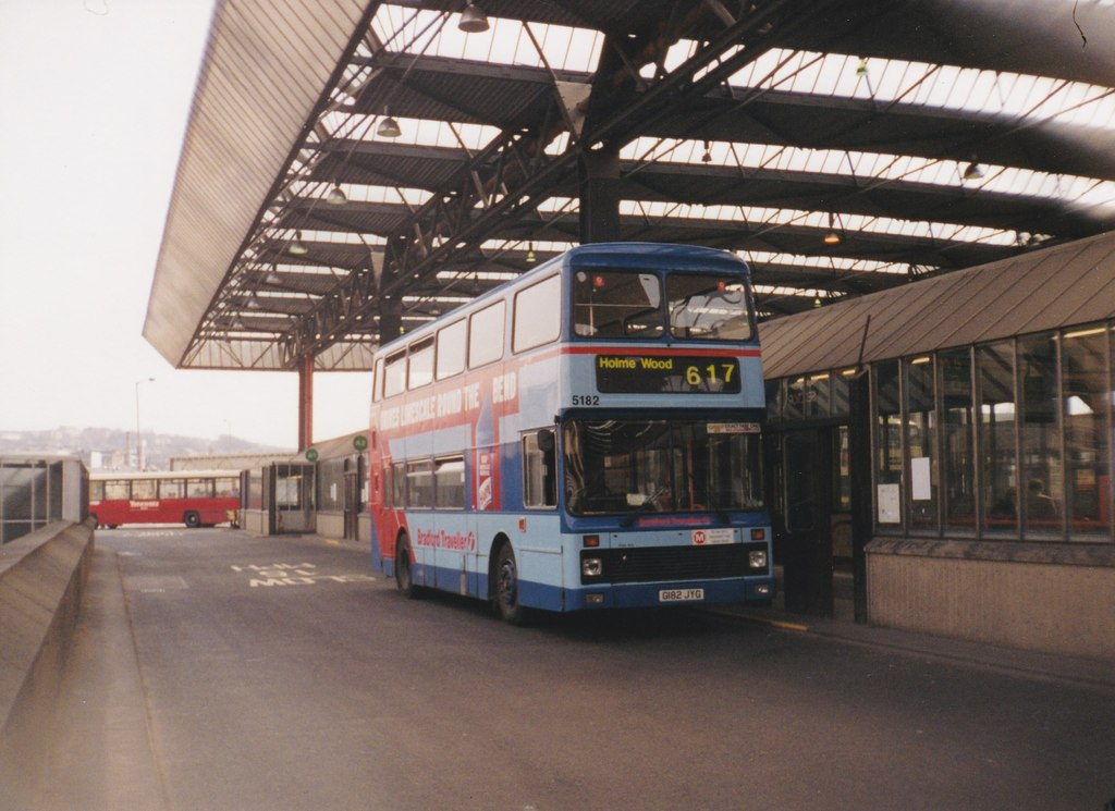 Bus in Bradford Interchange